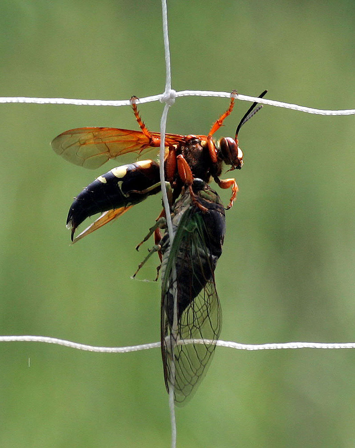 Eastern cicada killer wasp (Sphecius speciosus) holding dead cicada at John Heinz National Wildlife Refuge, Philadelphia, PA.